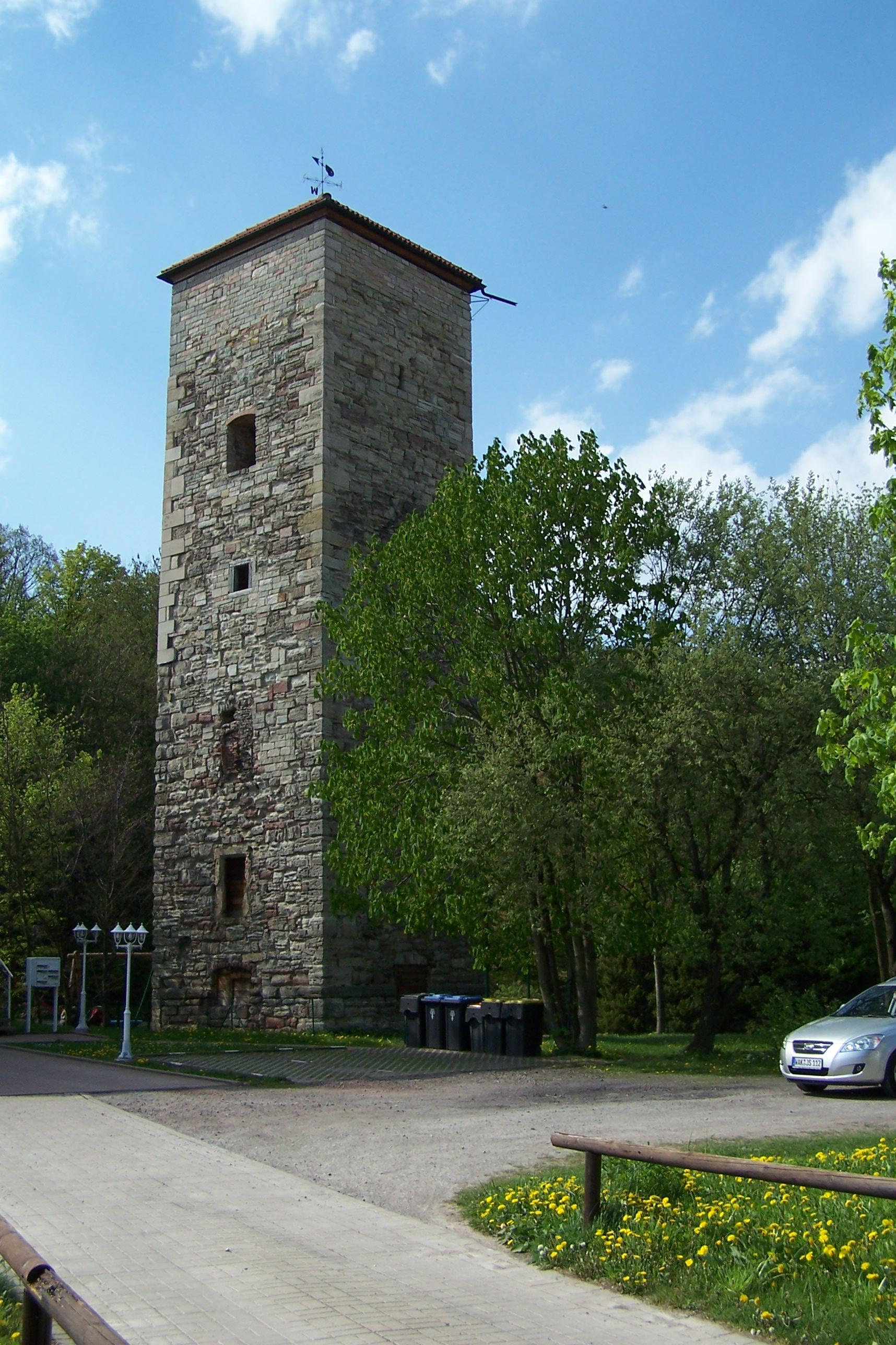 The tower ruins of the castle in Farnroda.